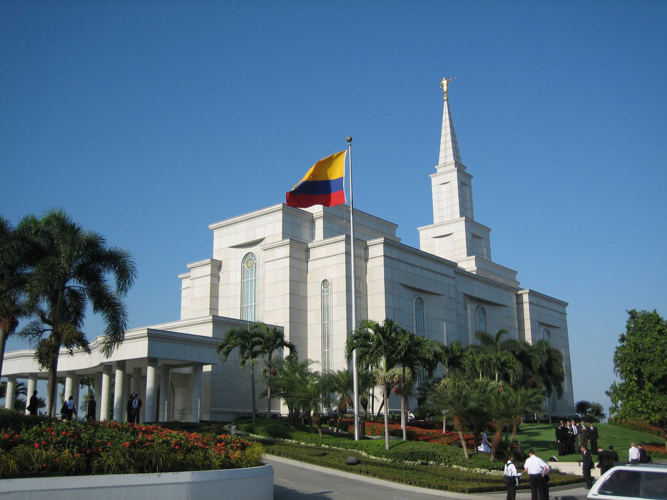 LDS temple in Guayaquil, Ecuador. Entrance is on left.